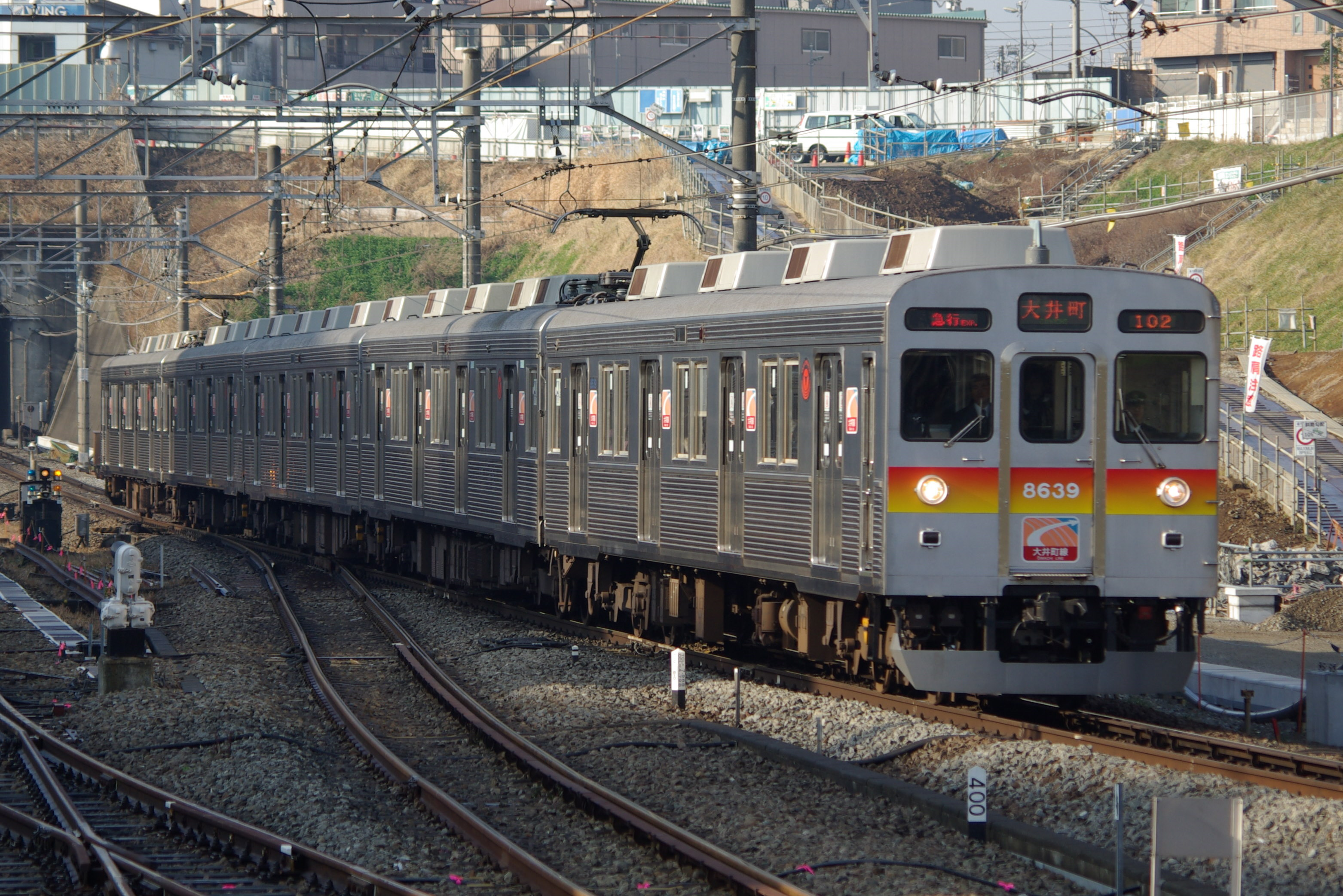 Description（説明）: Tokyu Electric Railway type 8500（東急8500系 大井町線直通急行） Source（出典）: Tokyu Den-en-toshi line Kajigaya Station（東急田園都市線 梶が谷駅） Photographer/Painter（制作者）: yaguchi（矢口） Date（製作日）: 2007-01-27